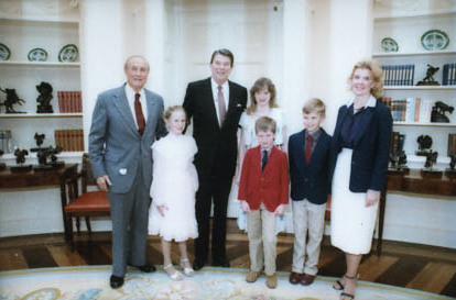 President Ronald Reagan, George Bush, Arlen Specter, John Heinz, Chaim Potok, Stuart Eisenstat, Joseph Mendelsohn, Muriel Berman, Charles Weiner, Robert Riskand, Norma Furst, Norman Oler (Not in all photos) (3-5) Photo Op. With Jewish Publication Society of America, presentation of Hebrew Bible President Ronald Reagan, President Reagan, Victoria Principal, Steve Symms, Frances Symms, John Wiswall, Charles Wiswall, Doris Wiswall, and George Bush (6-26) Photo Op. With Arthritis Poster Child John Wiswall and Victoria Principal Chairwoman President Ronald Reagan, Strom Thurmond, Nancy Thurmond, J. Strom Thurmond, Juliana Thurmond, and Paul Thurmond (27-36) Photo Op. With Senator Strom Thurmond and Family